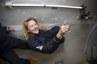 "I'm flying!" Esther Dyson image courtesy Zero-G